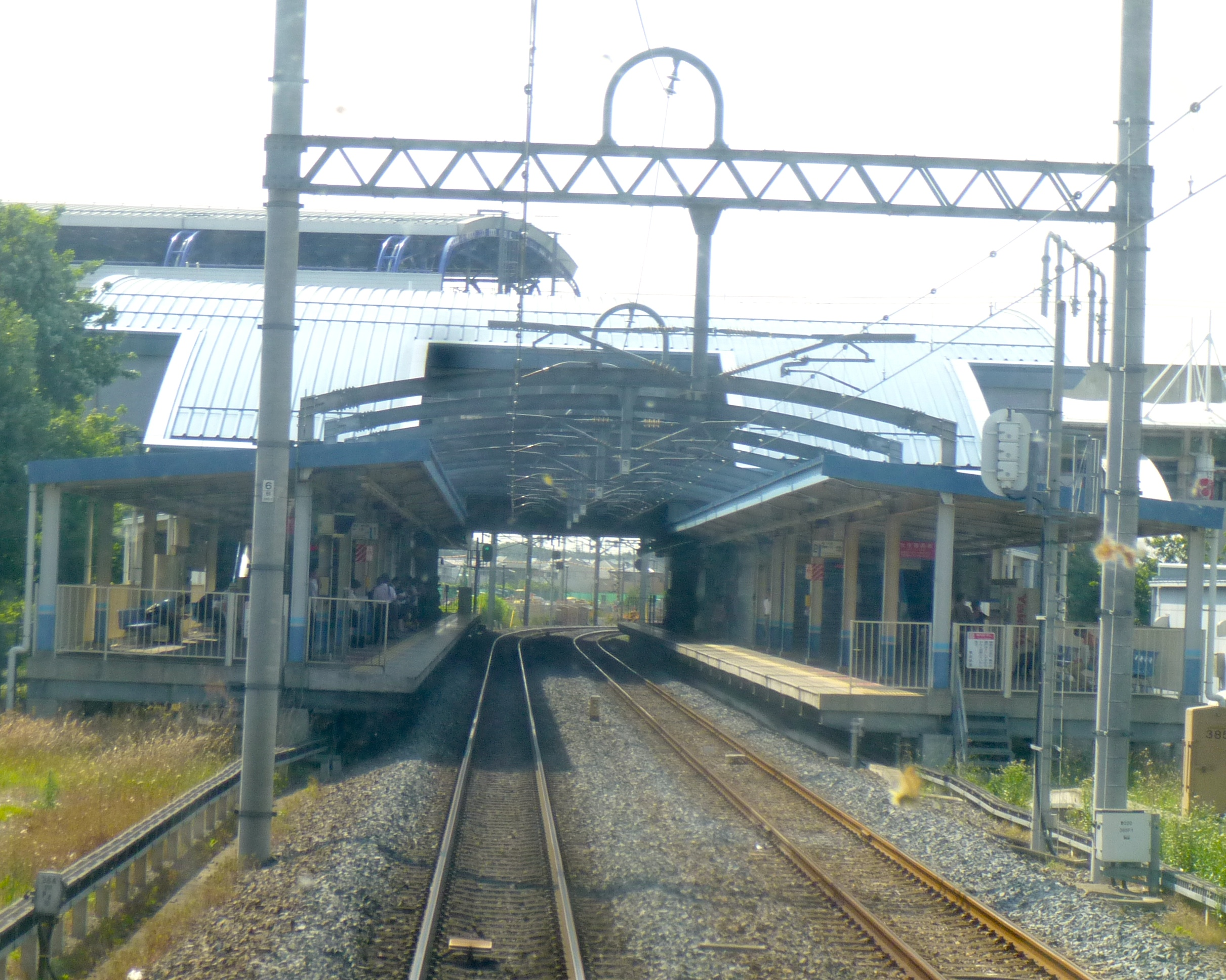 Nagareyama-ōtakanomori Station (流山おおたかの森駅 Nagareyama-ōtakanomori-eki) is a junction railway station located in Nagareyama, Chiba Prefecture Japan. This is a view of the platforms, viewed from the Tobu tracks.